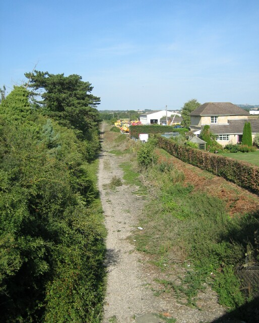 Site of Weston-sub-Edge Station. Looking north east from the railway bridge on the Weston-sub-Edge to Bretforton road across the site of the old railway station. The station closed on 7th March 1960.